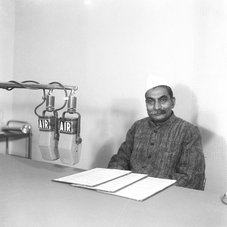 Food Minister Dr. Rajendra Prasad's broadcast to the nation.